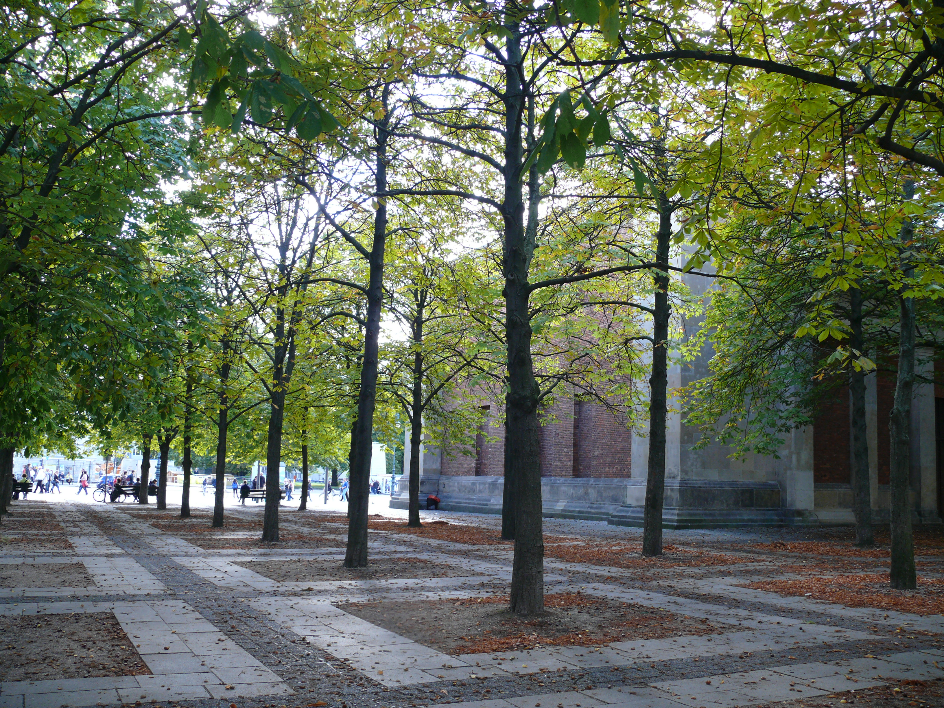 Mitte Kastanienwäldchen hinter der Neuen Wache